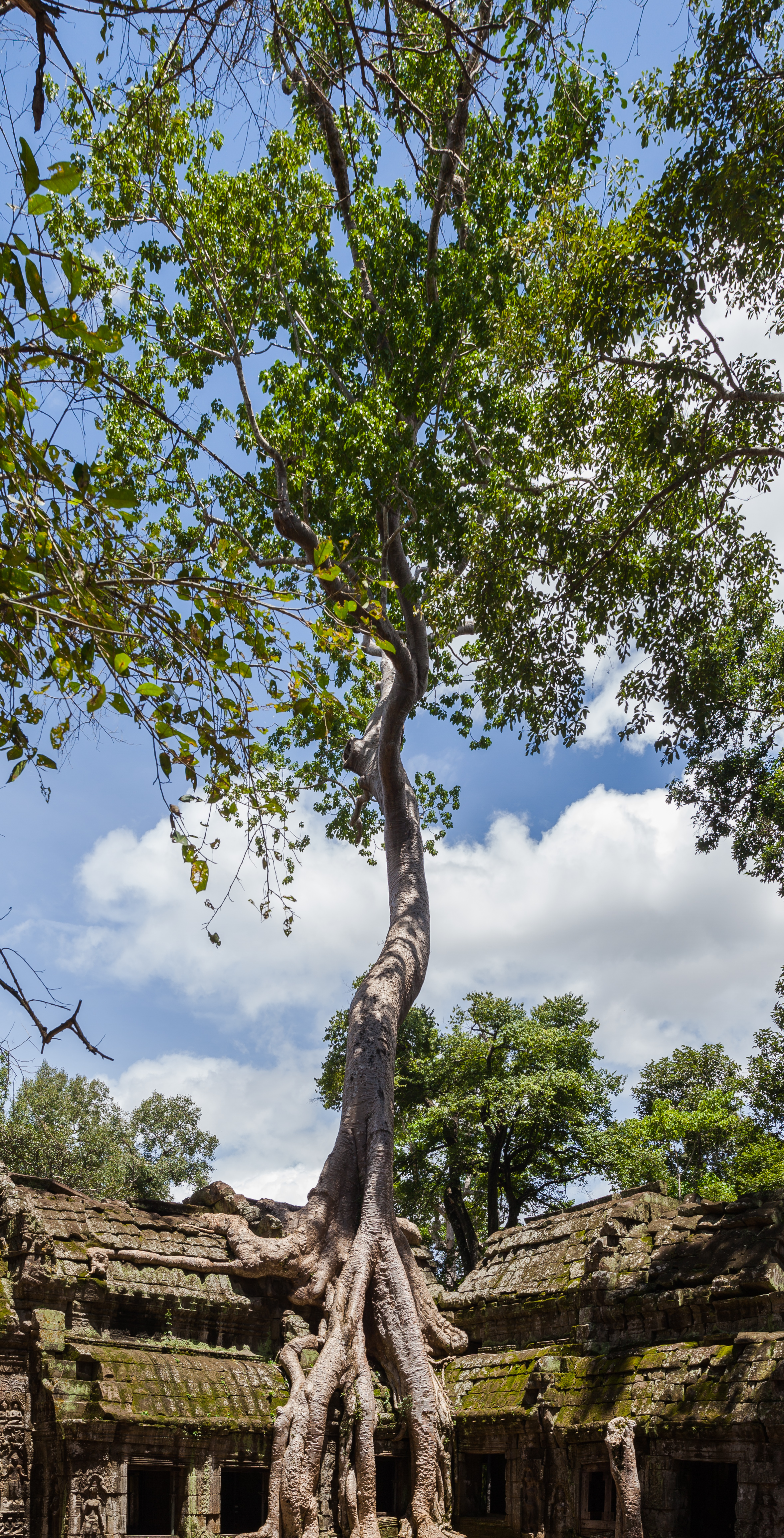 Ta Phrom, Angkor, Cambodia